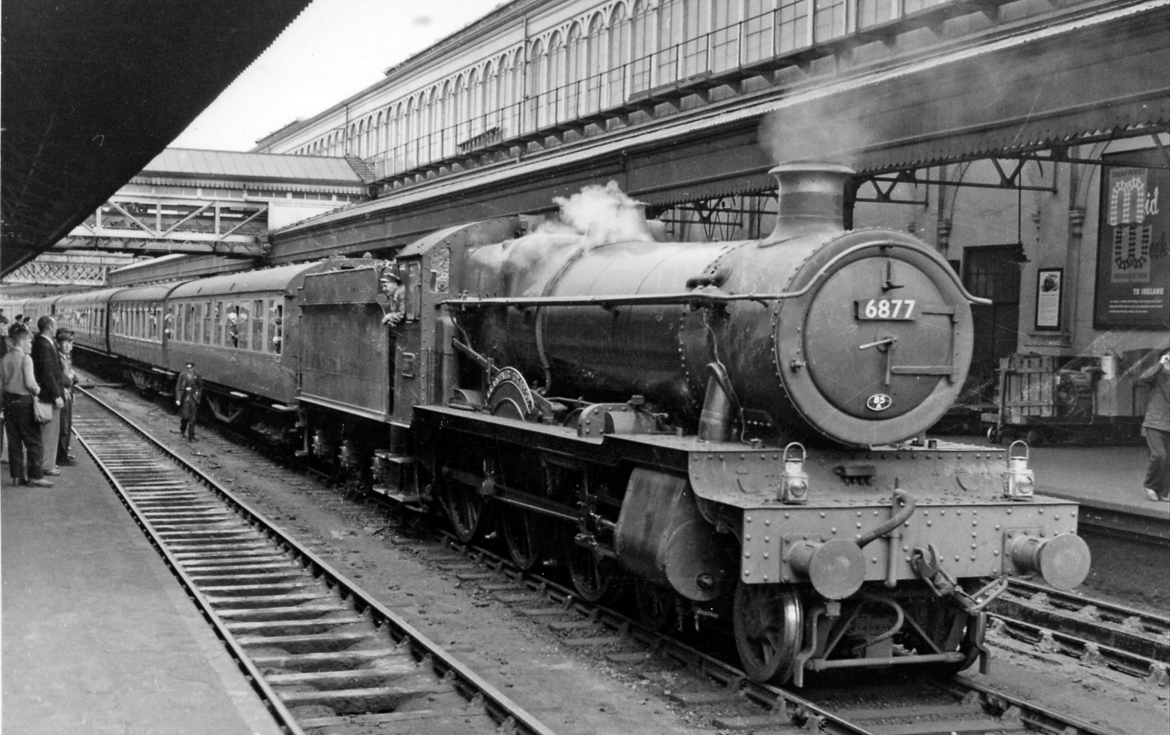 Holiday Relief express at Exeter St David's station. View northward, towards Taunton etc. on the ex-GWR main line, towards Plymouth etc. on the SR. The 08.50 Swansea - Paignton is a Summer Saturday relief express that has come via Bristol and is not calling at Exeter but is held on the Down Independent line, headed by 4-6-0 No. 6877 'Llanfair Grange' (built 4/39, withdrawn 3/65) of a Class normally engaged on freight workings. The crew have time to chat with the boys on the platform.